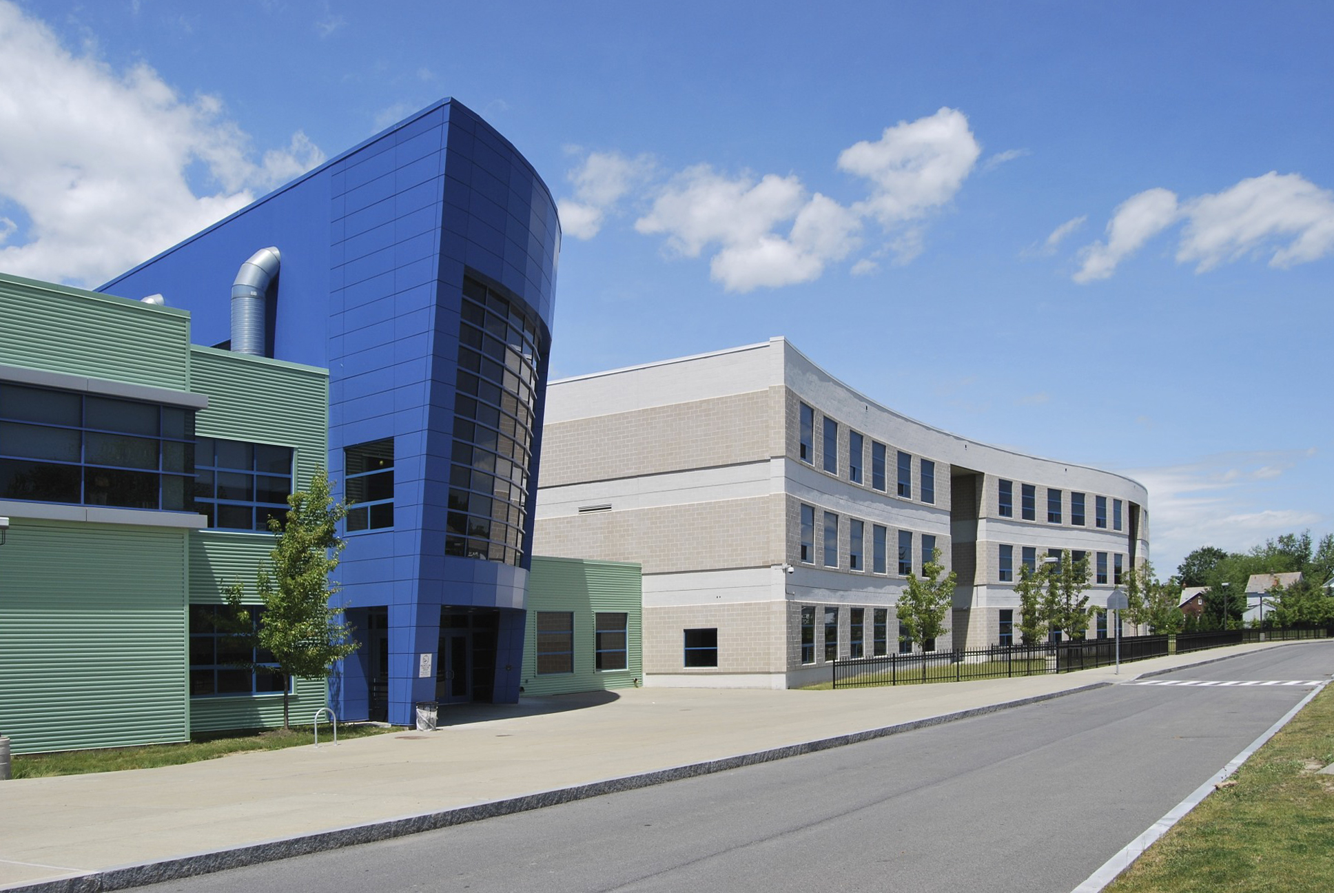 Stephen and Harriet Myers Middle School, a middle school of the City School District of Albany in Albany, New York, United States